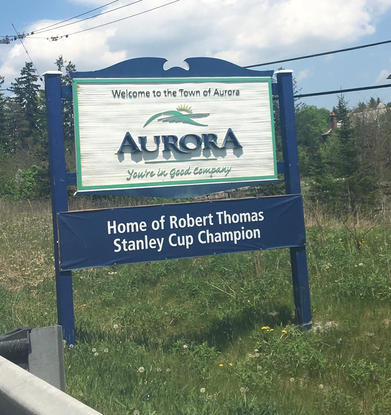 Sign at the entrance of Aurora, Ontario